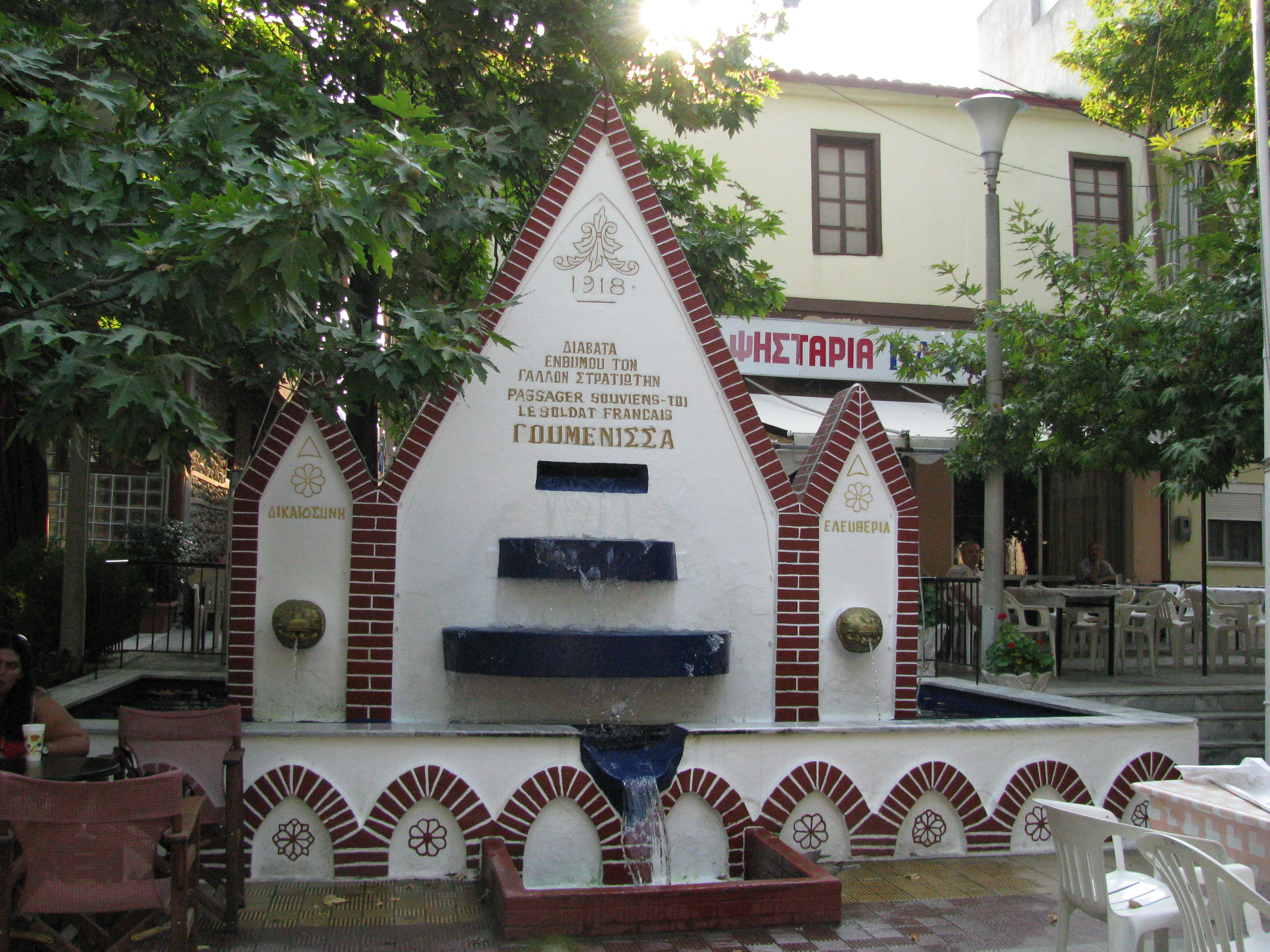 centre of Goumenissa, French memorial